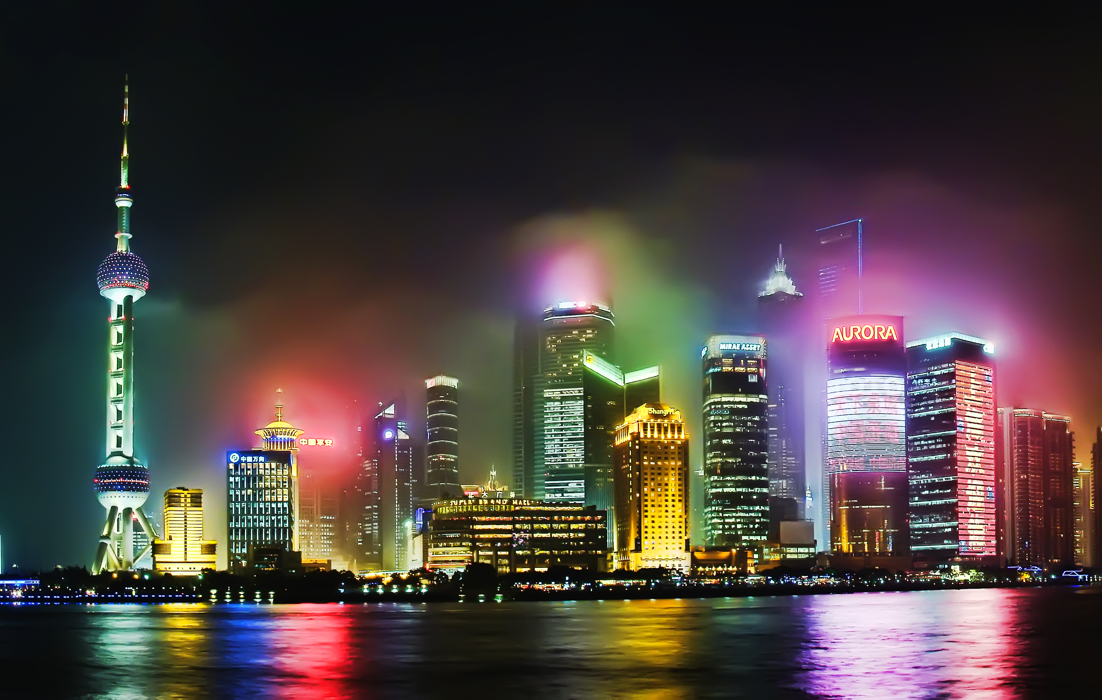 The towers of Lujiazui Finance and Trade Zone (陆家嘴金融贸易区) at PuDong, Shanghai - seen from The Bund. The beautiful Shanghai is plagued by pollution. It is rather hard to have a good view of the buildings in PuDong during the Summer, you'd have to be lucky for the right shot. "Beauty is in the eye of the beholder," I actually love how the haze composes the picture. View on black. You can mouse over the buildings to see their name. If there is anything wrong, please make a change.